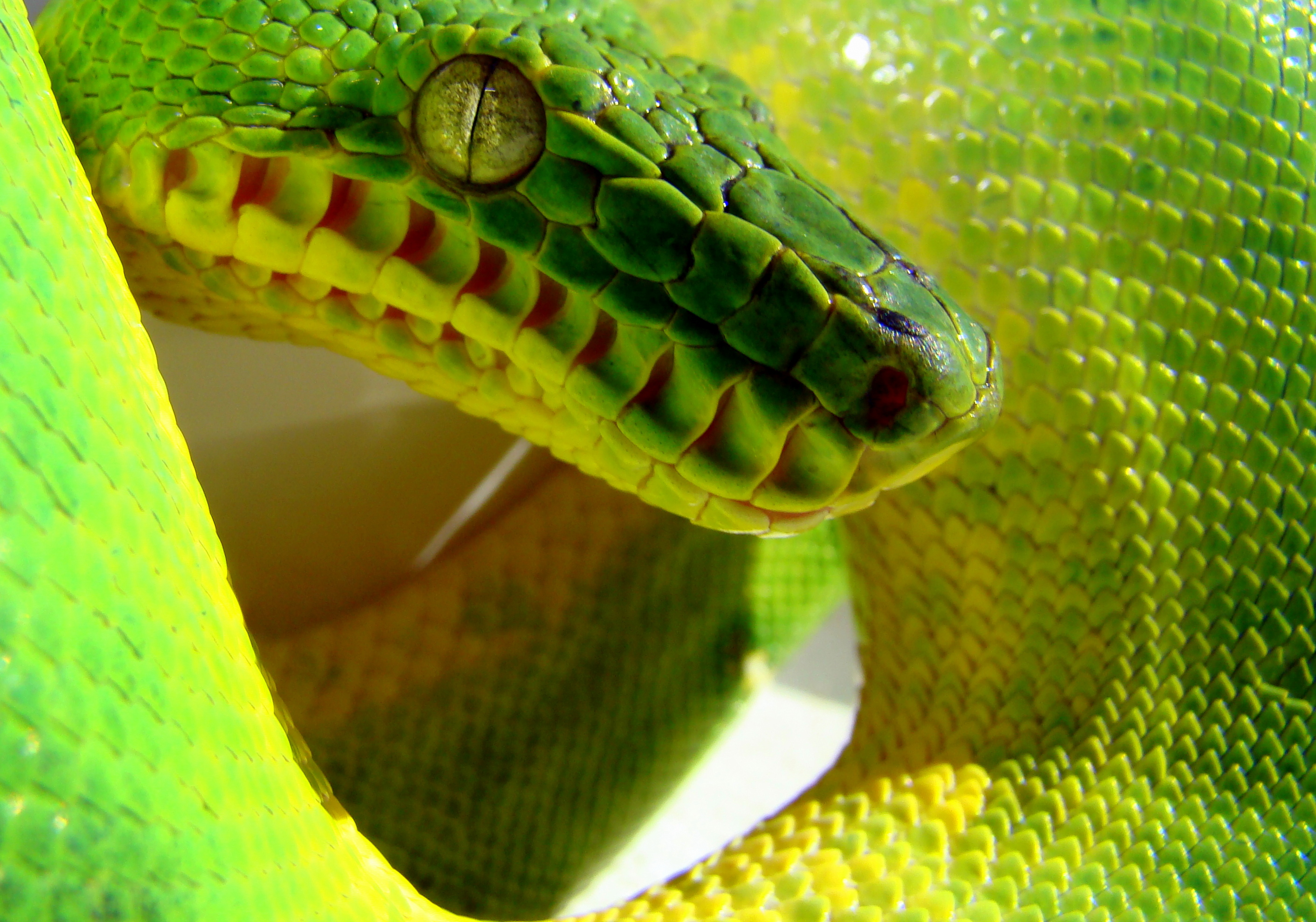 Emerald tree boa snout